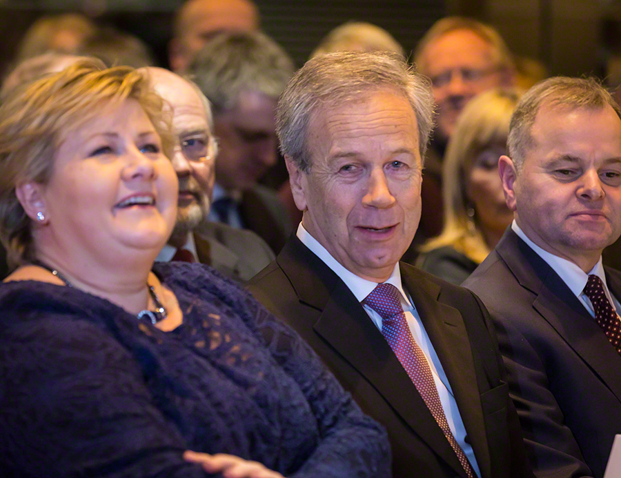 Erna Solberg, Øystein Olsen and Olemic Thommessen at Governor Øystein Olsen's annual address in February 2016